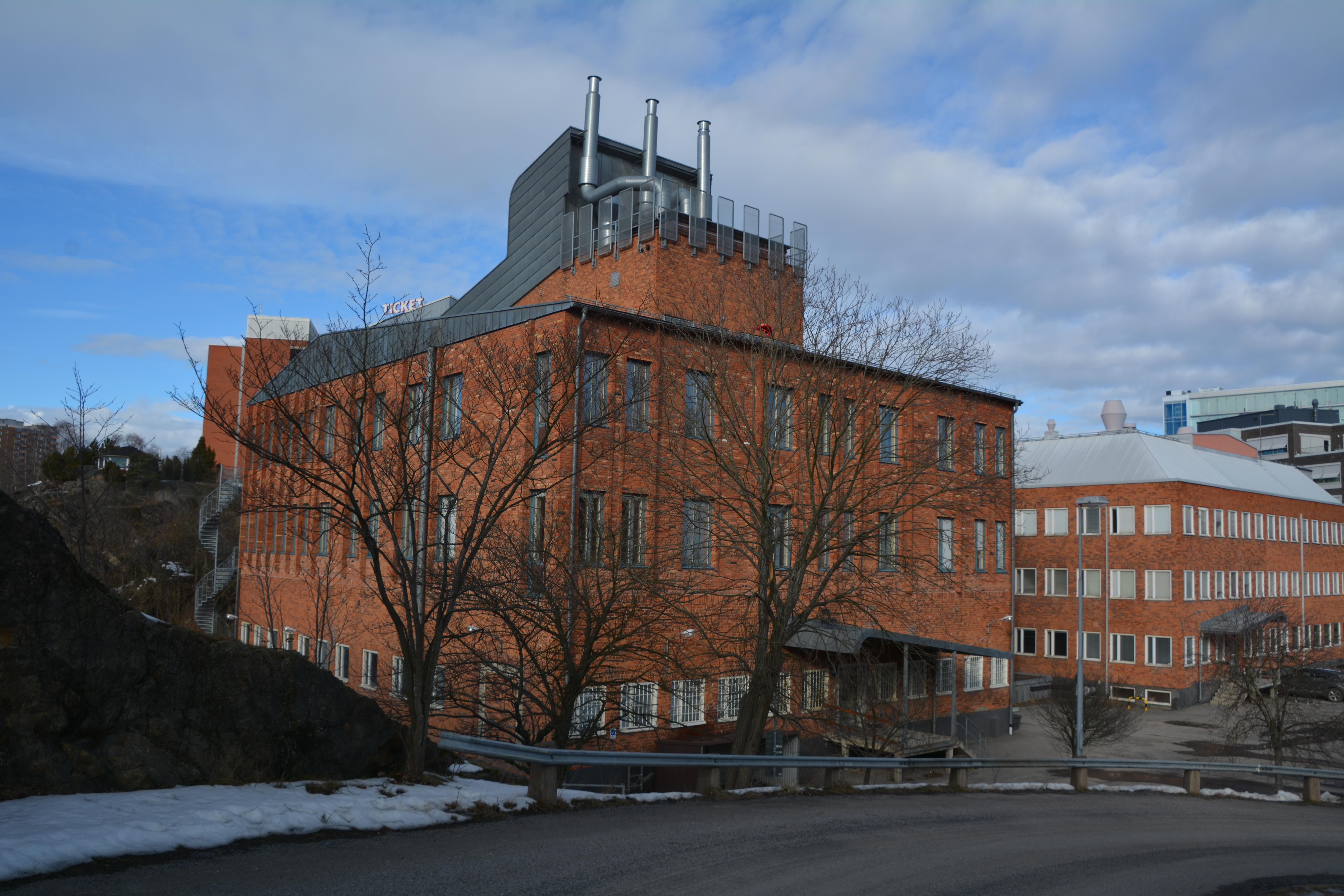 Tidigare Casco-fabriksbyggnad från troligen 1940-talet i området Sickla ö i Nacka, Sverige